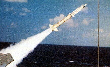 The U.S. Navy guided missile cruiser USS Josephus Daniels (DLG-27) launching an RIM-2 Terrier missile.